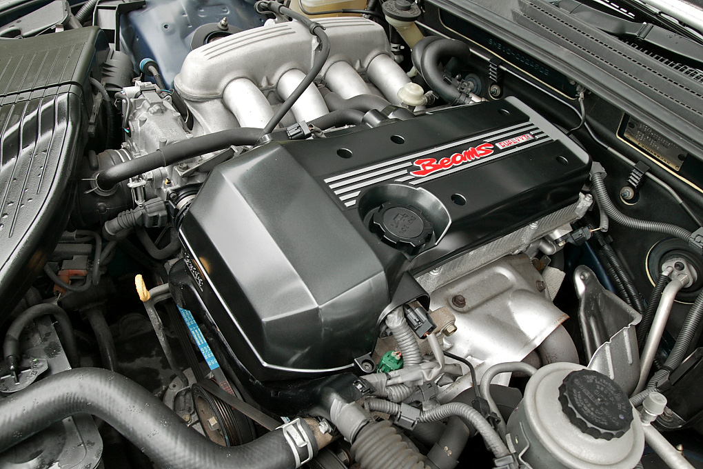 Toyota 3S-GE Engine longitudinally mounted in a Altezza.